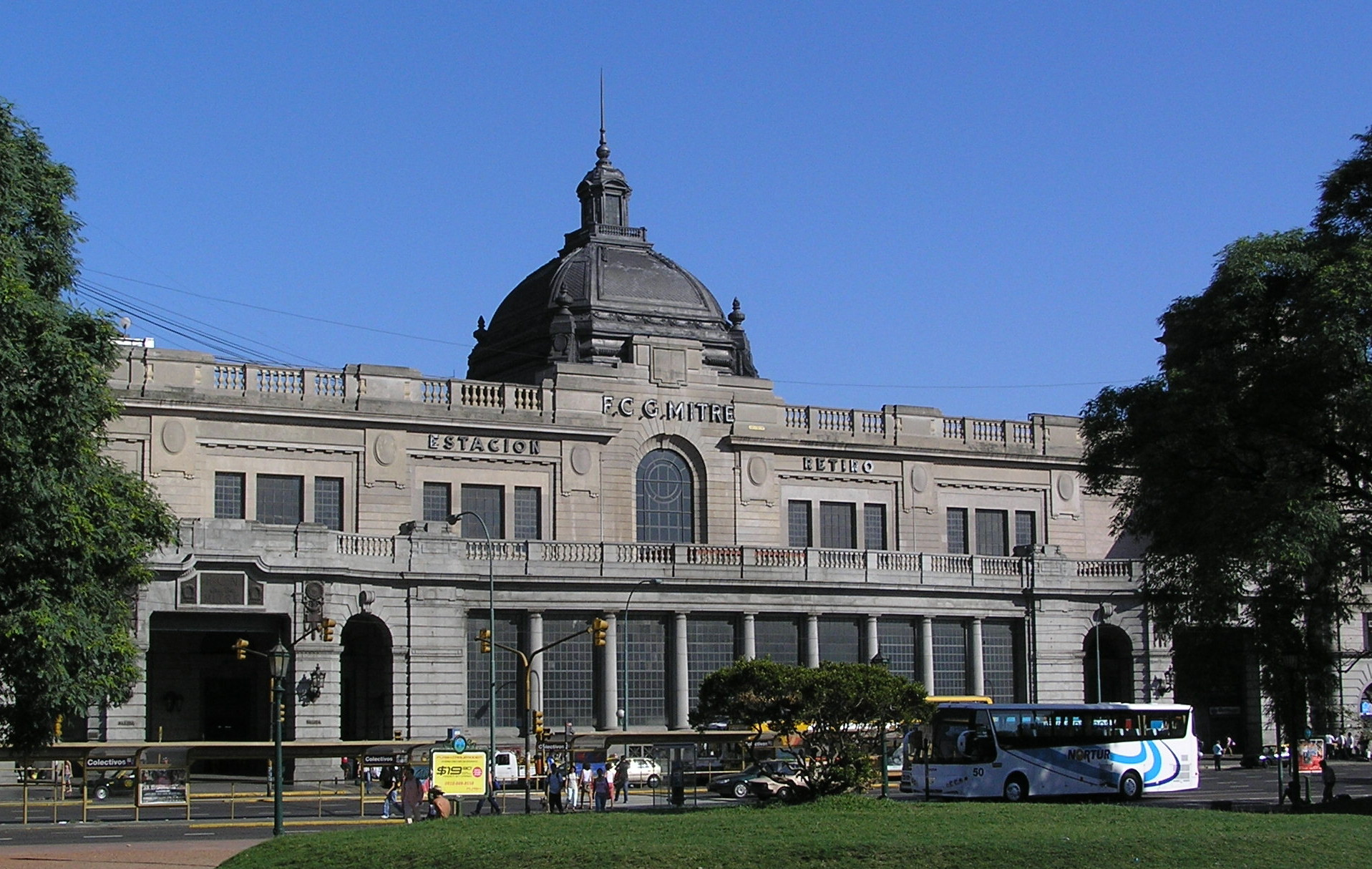 Retiro (Mitre) railway station, originally built by the Central Argentine Railway, opened in 1915.